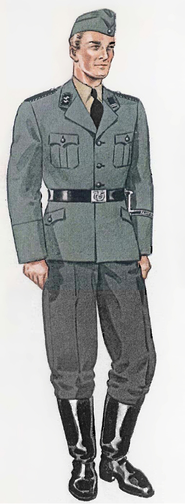 Illustration of the fieldgrey Waffen-SS service uniform, Model 1937.